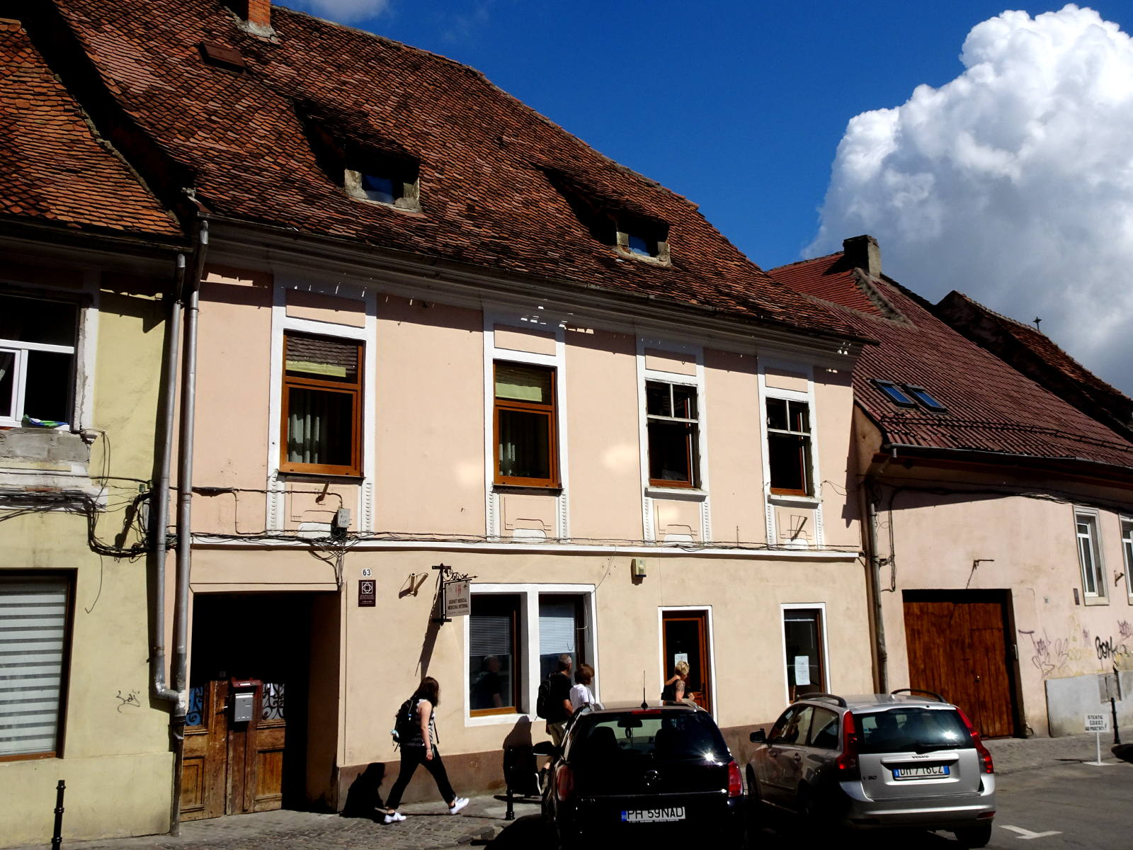 House in Bălcescu street, Brașov